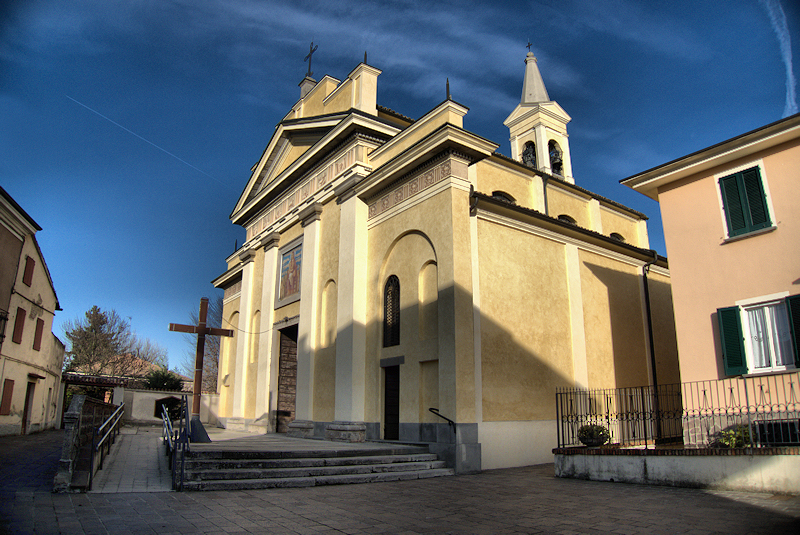 The parish church of St. Mary Magdalen in Cremosano, province of Cremona, Italy